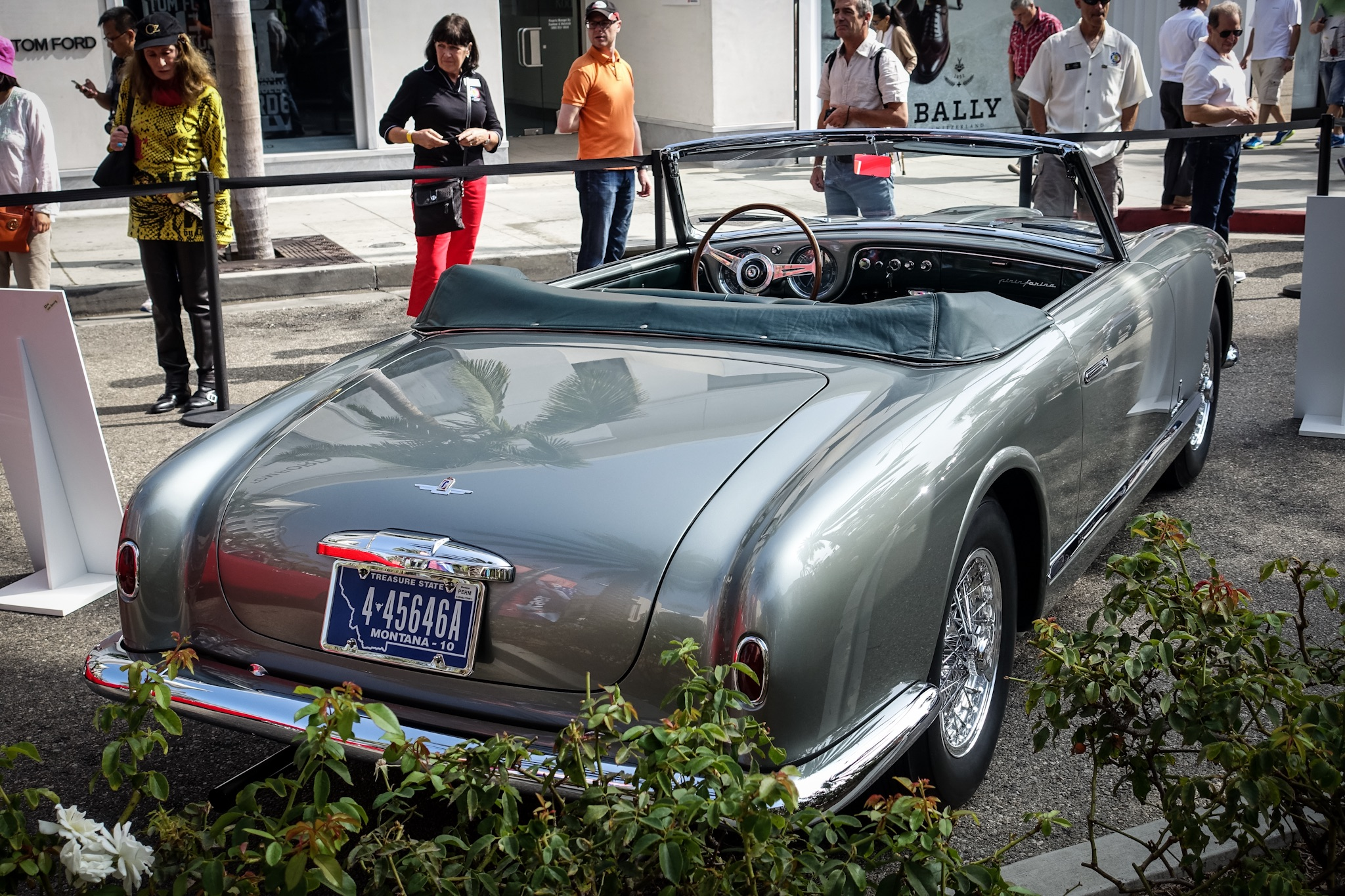 The 340 America was so named to suggest the larger engines preferred in the U.S. Ferrari built six similar cars for road use, fitted with heavier, more luxurious coachwork; these cars were designated the 342 America. This is the last of the six, a cabriolet bodied by Pinin Farina. It is unique among the six, having been built with a larger displacement 375 engine. It was displayed at the 1953 New York Auto Show.